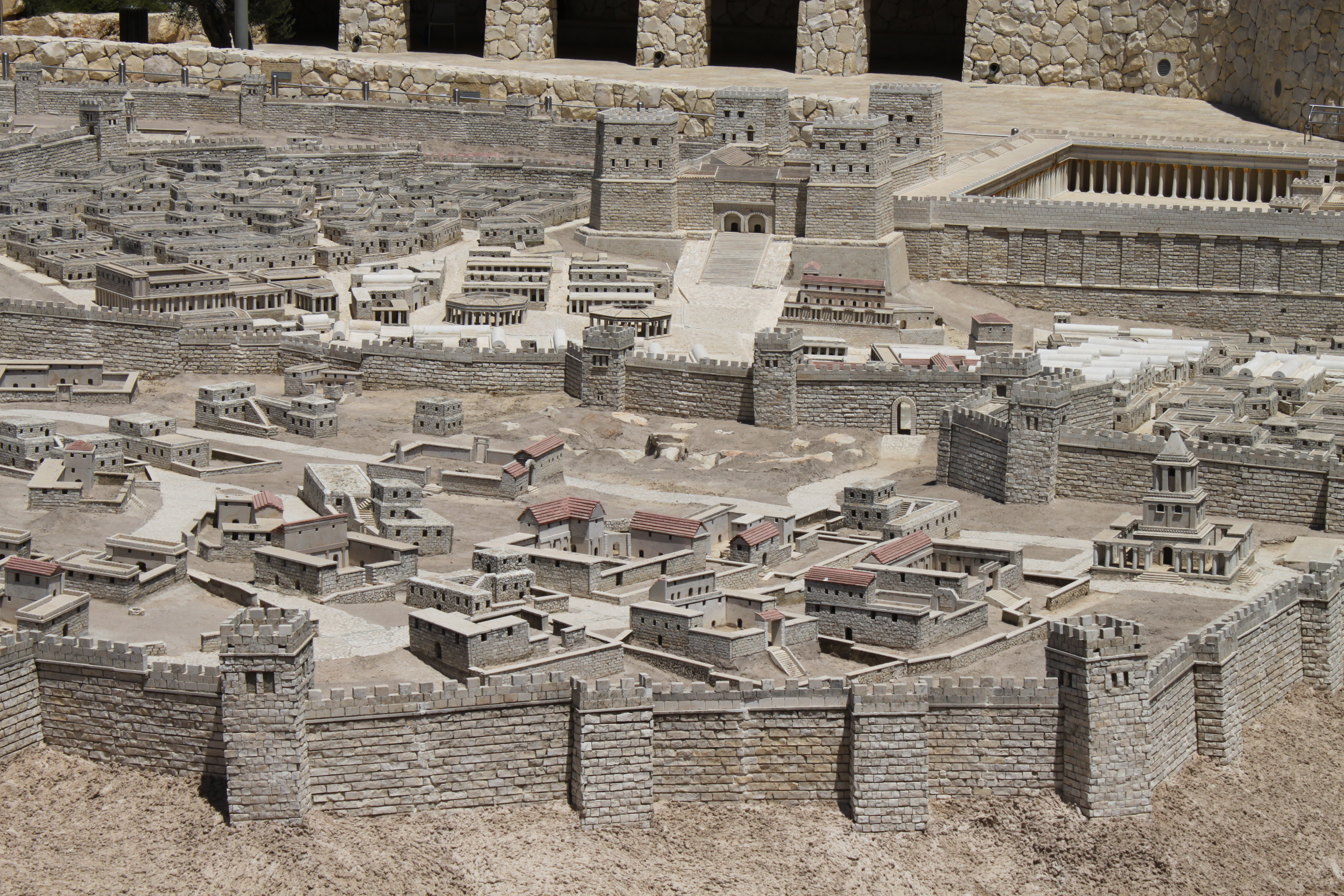 Model of Jerusalem before 70 AD, in the middle of the picture Golgatha